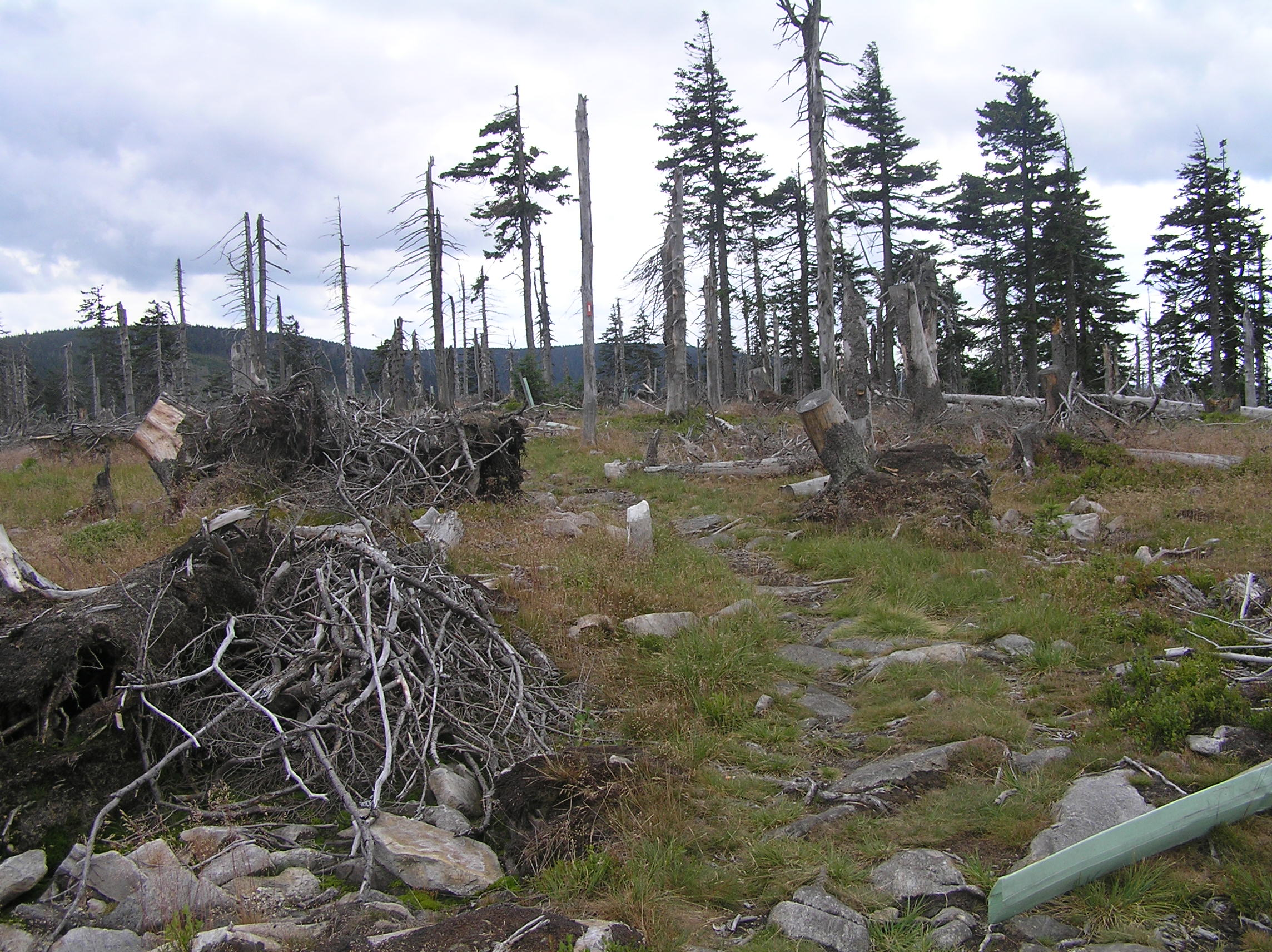 Stříbrnická (1250 m) is the mountain near the the town Králíky, the Králický Sněžník Mountains, Czech Republic